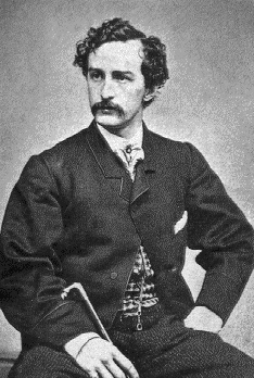 Portrait of John Wilkes Booth (1838–1865)